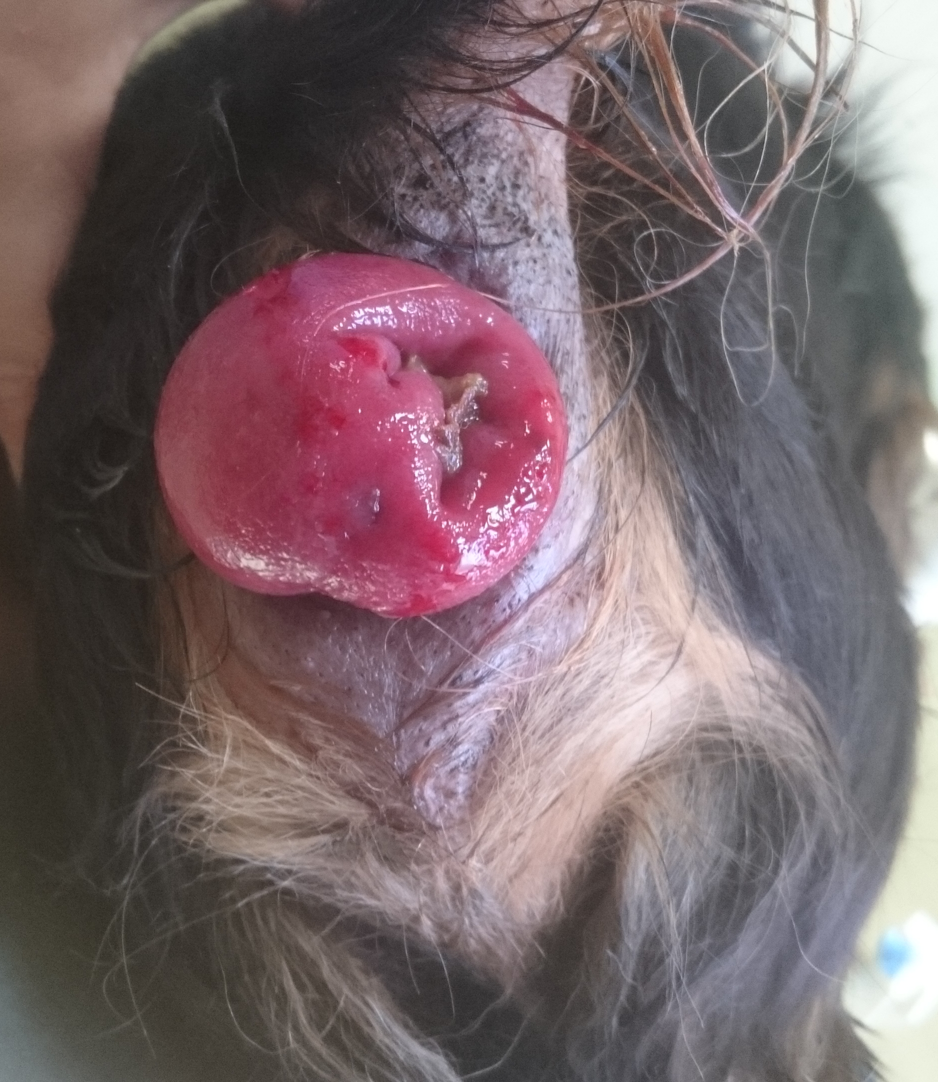 Rectal prolapse in a dog with perineal hernia